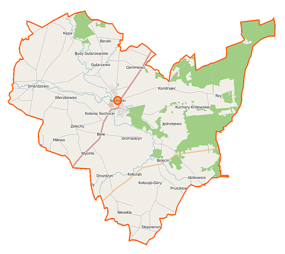 Map of Gmina Sochocin, Poland This map of Sochocin (gmina) was created from OpenStreetMap project data, collected by the community. This map may be incomplete, and may contain errors. Don't rely solely on it for navigation. Border coordinates52.745020.3638←↕→20.622752.6055